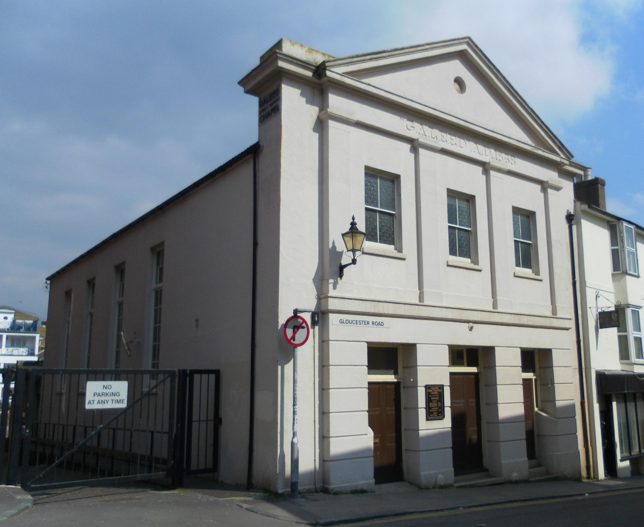 Galeed Strict Baptist Chapel, Gloucester Road, Brighton, City of Brighton and Hove, England. A Gospel Standard Strict Baptist chapel dating from 1868.